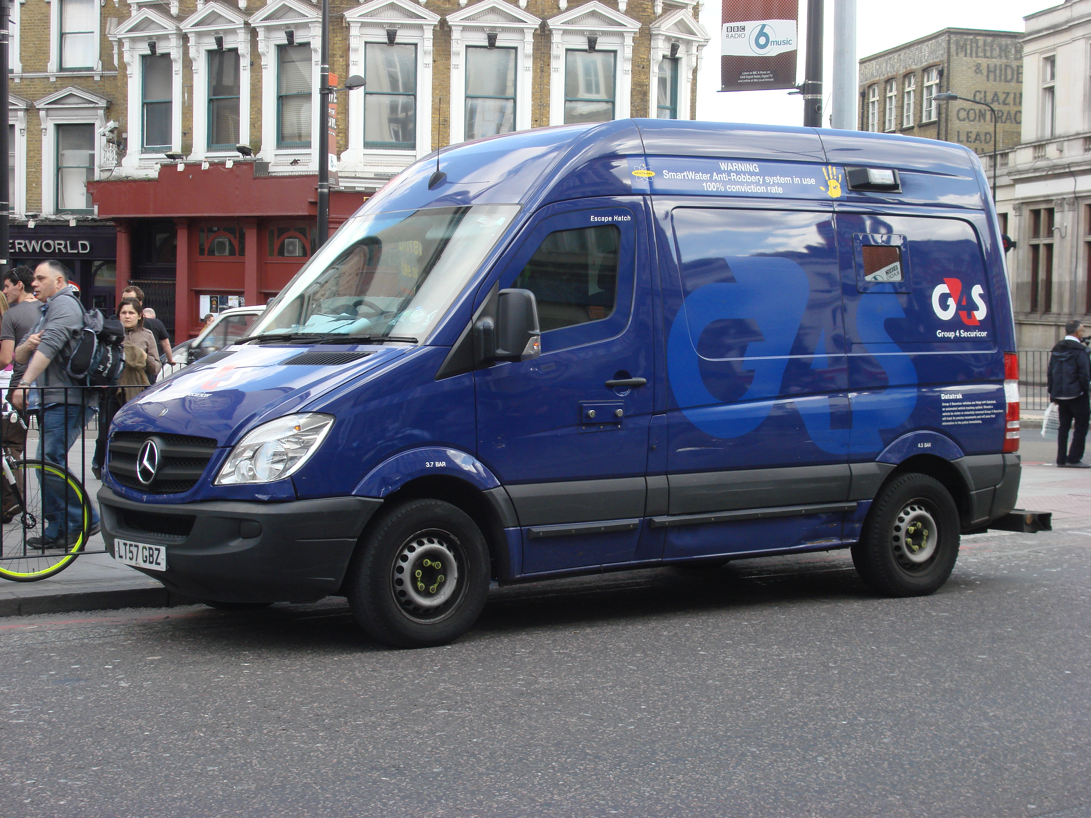 Group 4 Securicor van. Camden High Street, Camden Town, London